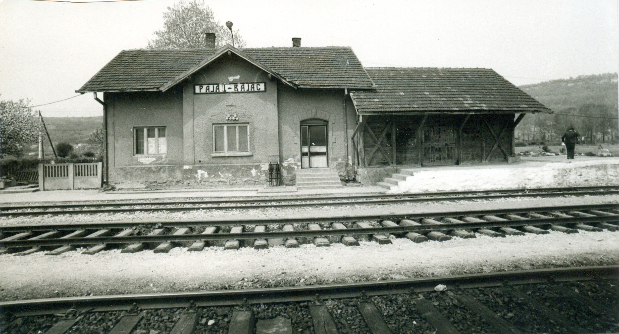 Train station in Rajac near Negotin Srpski (latinica): Železnička stanica u Rajcu kod Negotina